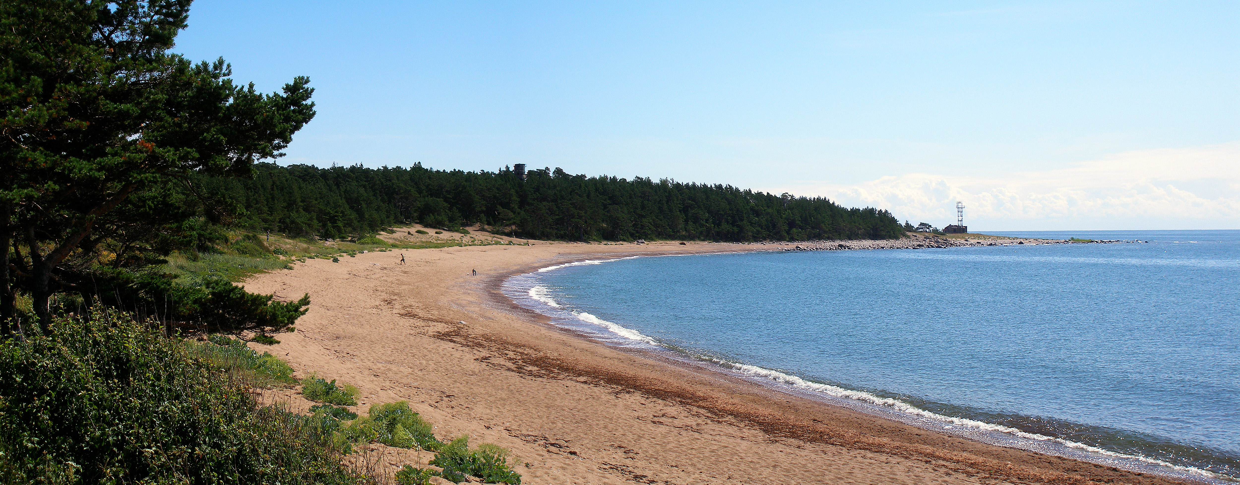 A beach just south of Cape Ristna, the westernmost point of Hiiumaa.